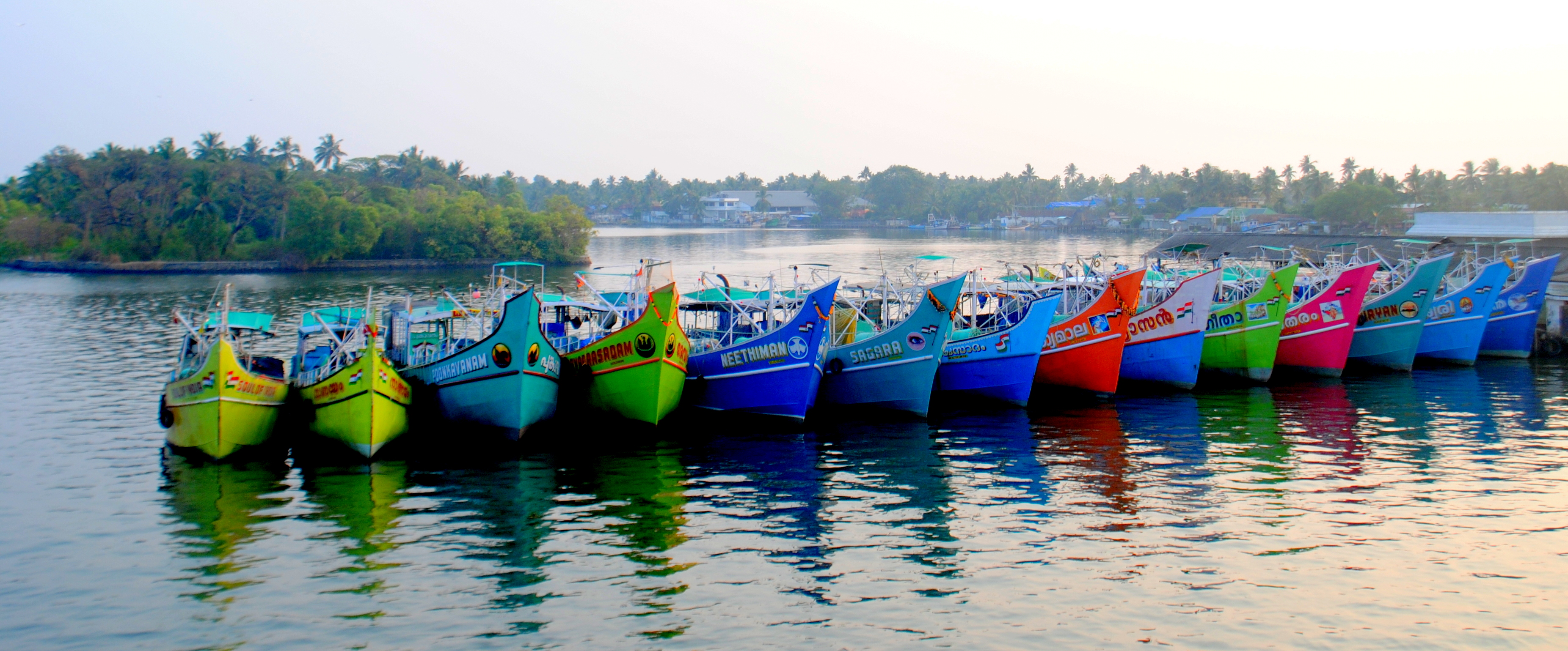 Boats in Vyppin